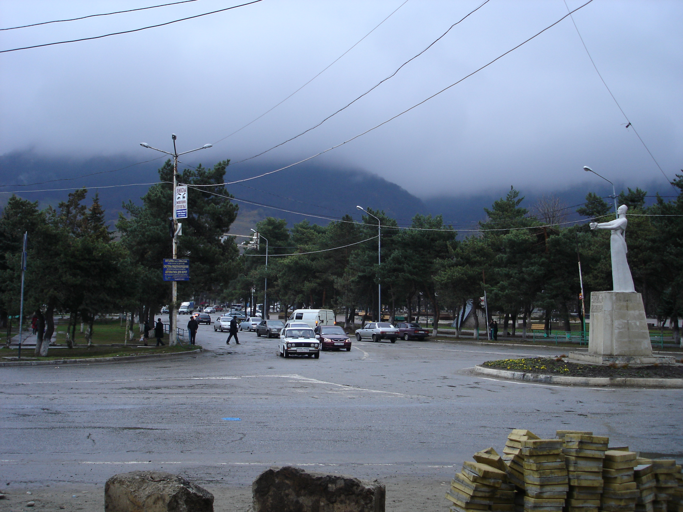 Mountaineer welcoming with ayran, Karachayevsk